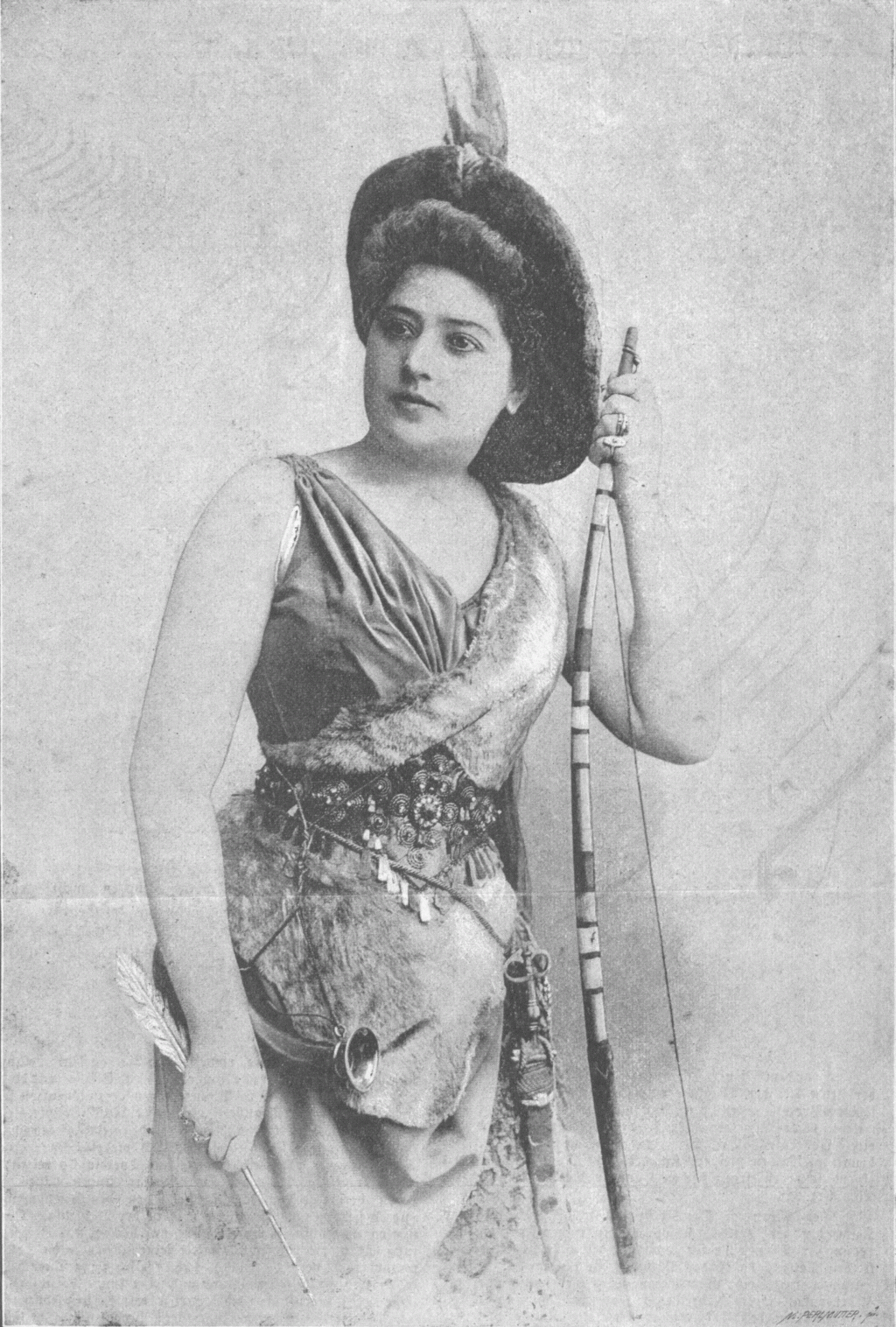 Lola Beeth (1861(?)-1940), German vocalist